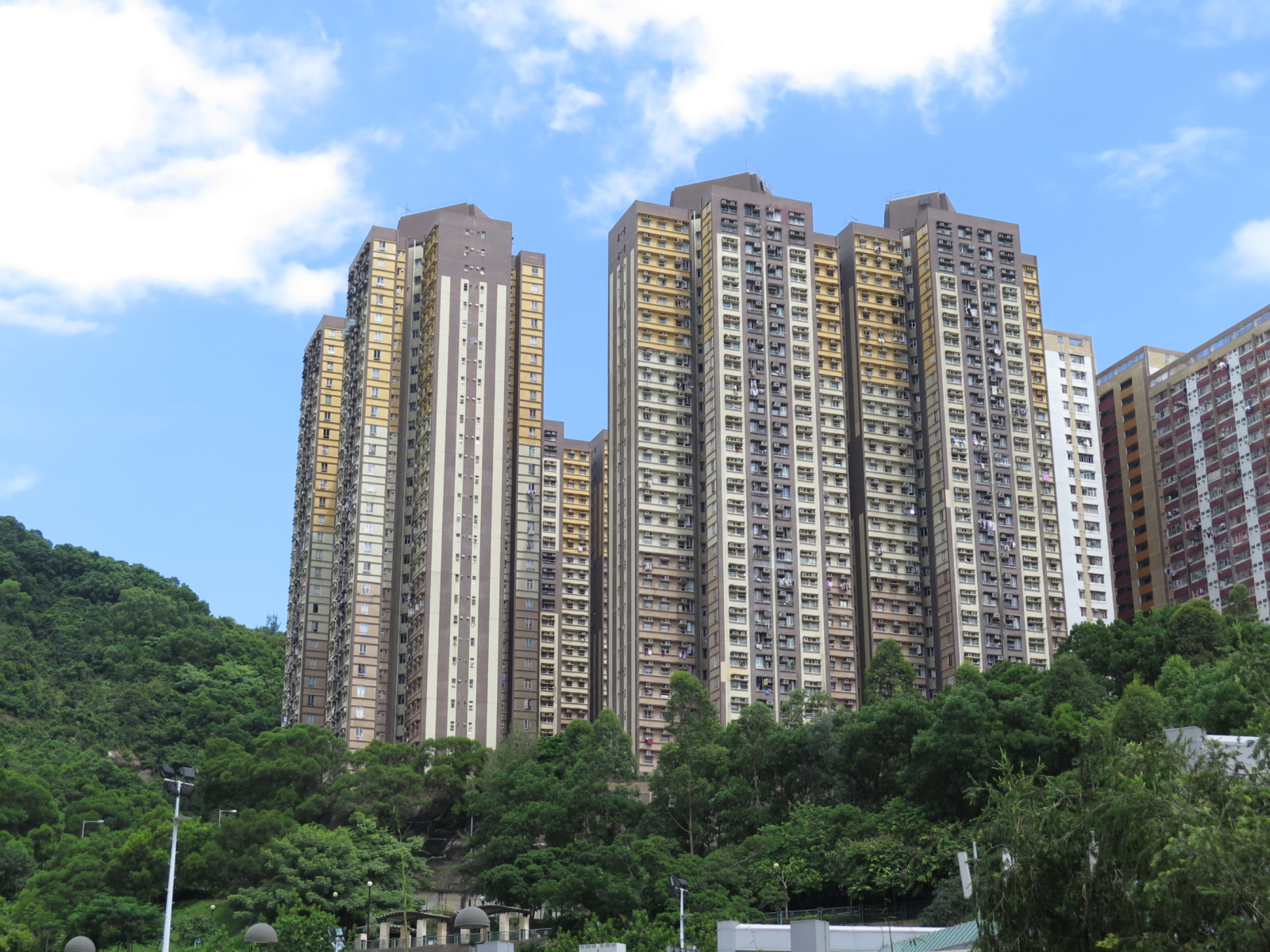 Lok Nga Court